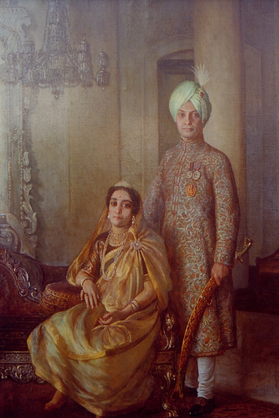 Portrait of Sir Prodyot Coomar Tagore by G.P. Jacomb-Hood, 1927